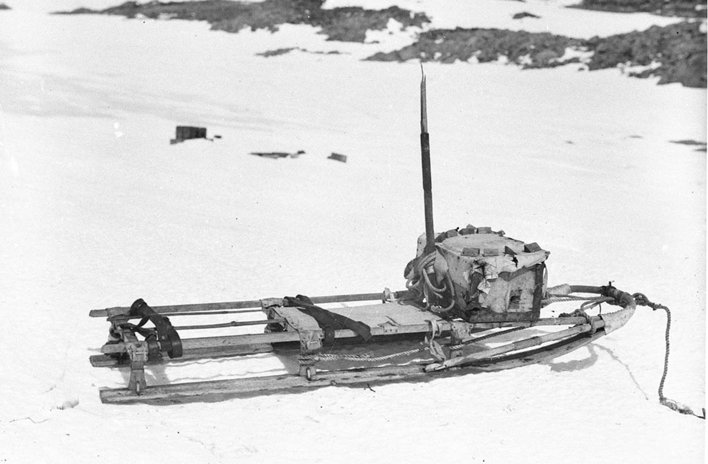 Half sledge used by Douglas Mawson during the final phase of the Far Eastern party, during the Australasian Antarctic Expedition.